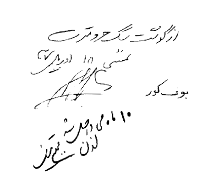 signature of Sadegh Hedayat on The Blind Owl